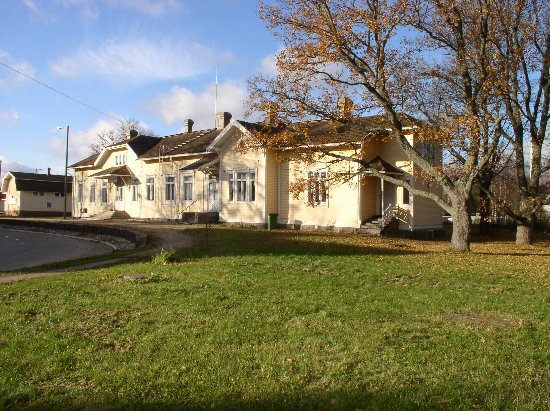 Paimio railway station in Paimio, Finland